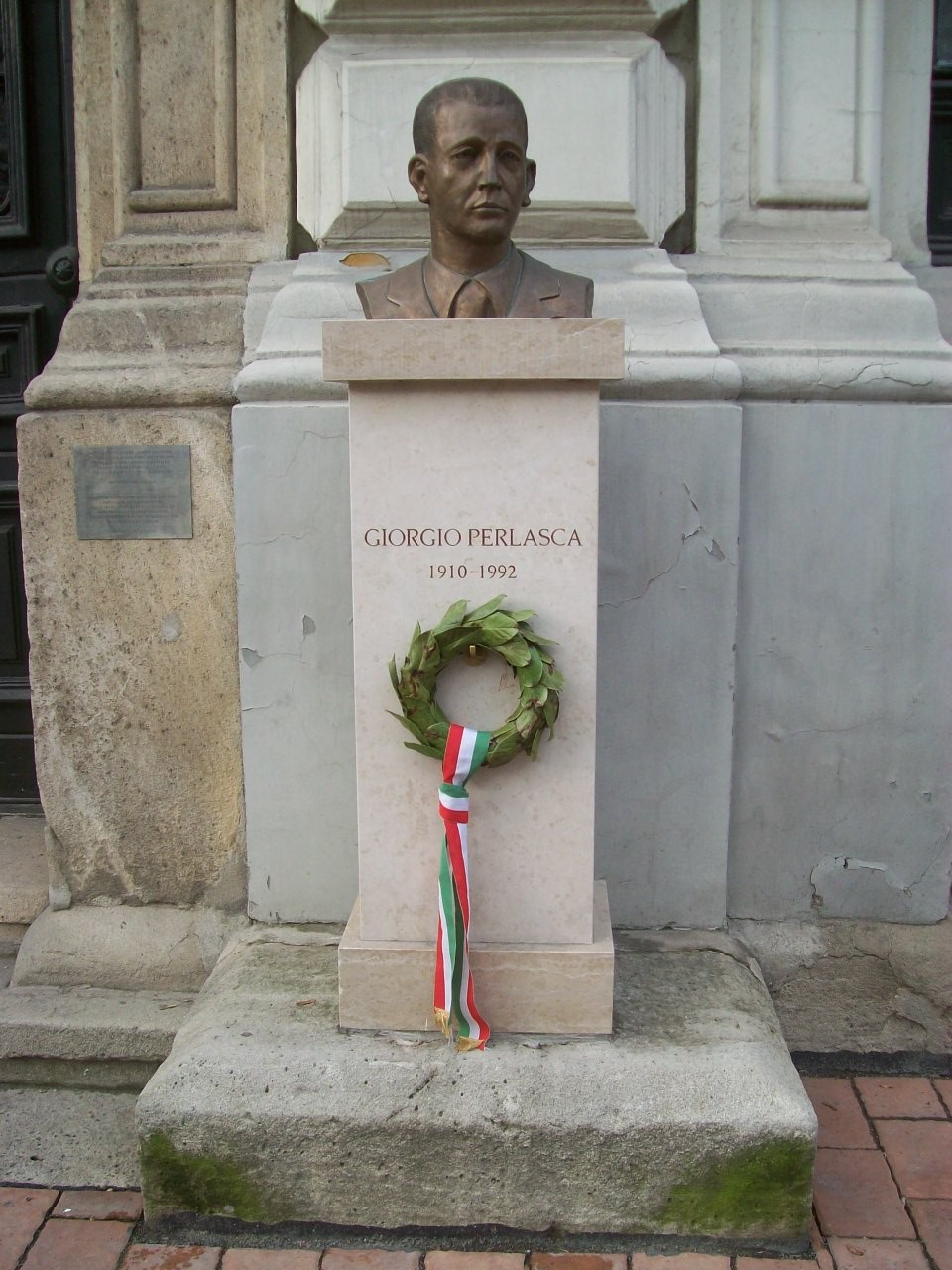 Giorgio Perlasca bust in Budapest